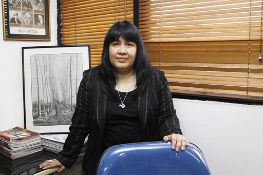 Leilachudori1